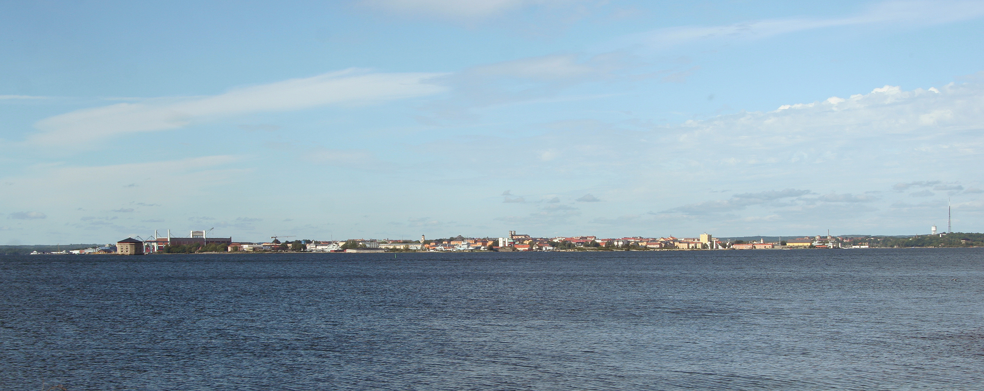 Town of Karlskrona seen from nearby island Tjurkö